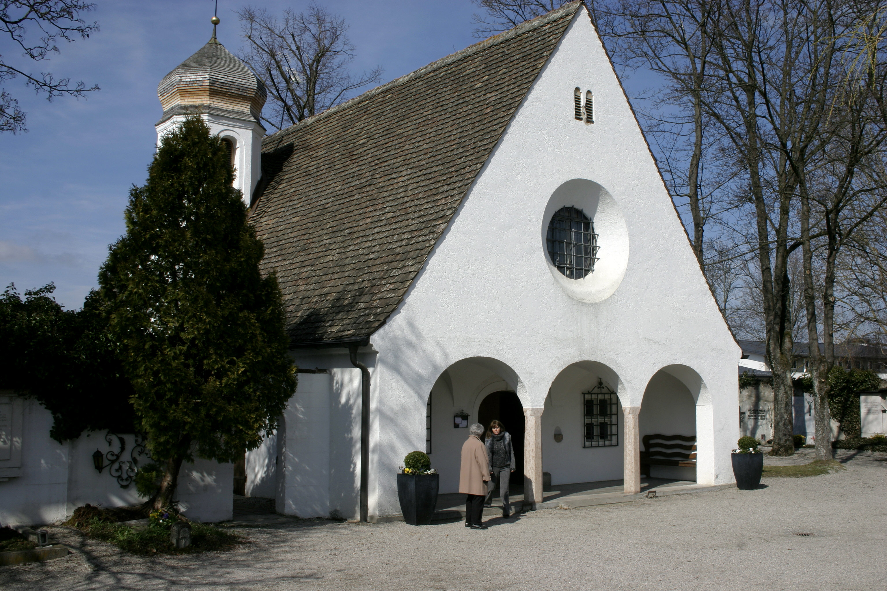 Herrsching, mortuary at the village cemetery.